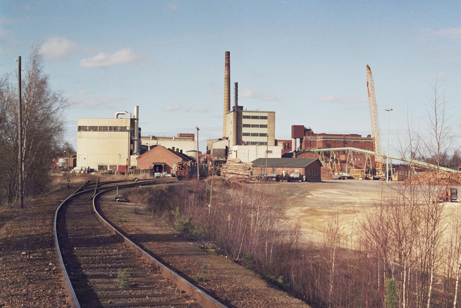 The CTMP mill (former pulp mill) of M-real in the Lielahti district of the city of Tampere in Finland. The facility was shut down in 2008.